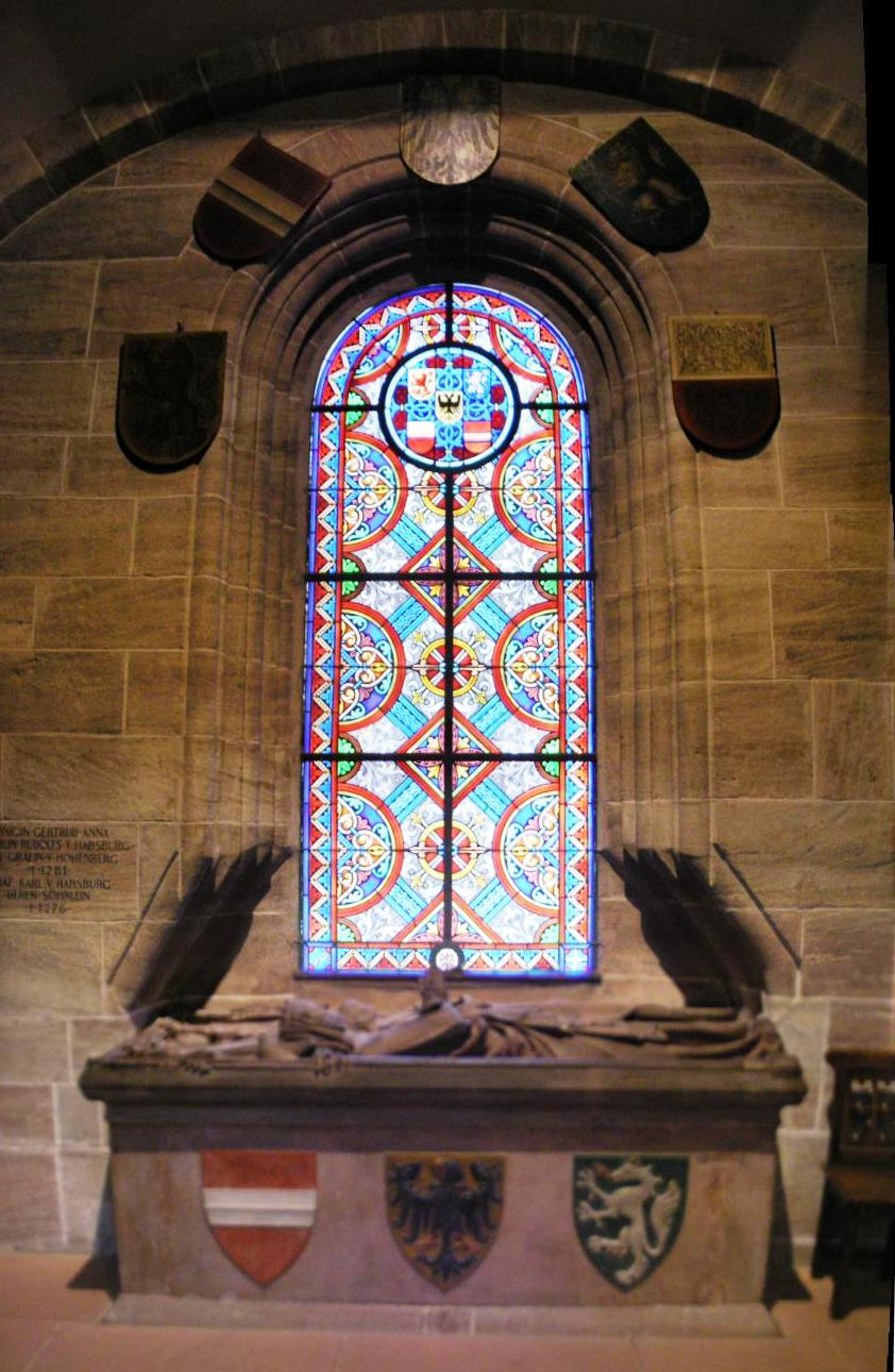 Panoramic view of Queen Gertrude of Hohenberg's tomb in the Münster of Basel.